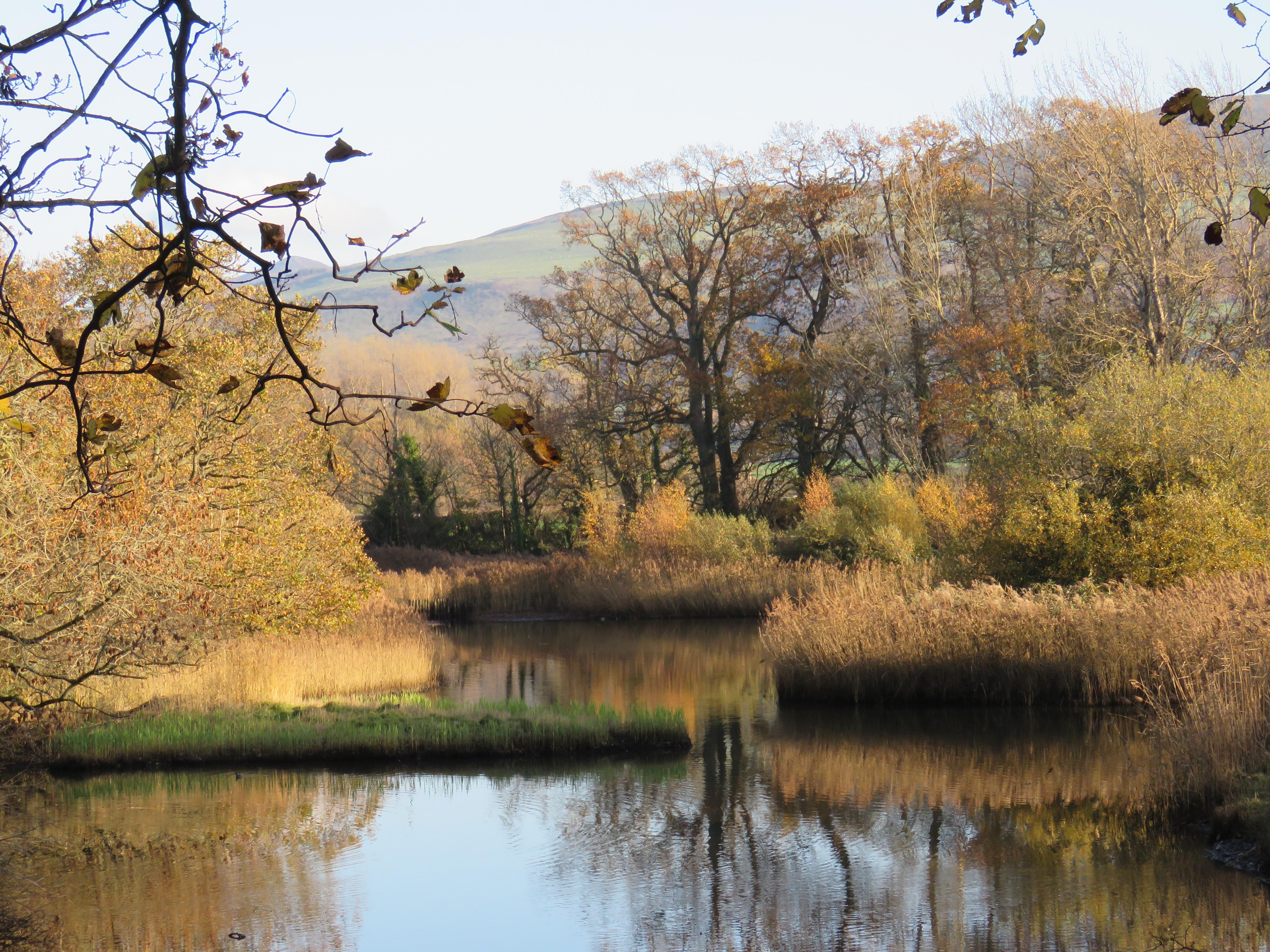 View of the Spinnies nature reserve looking inland from Menai Strait.